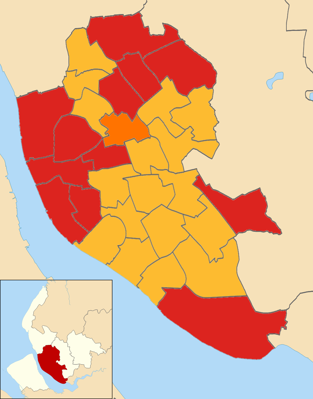 Results of the 2006 local elections in Liverpool Colours: Labour Liberal Democrat Liberal Party